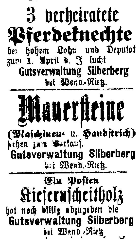 Advertisements of the manor administration Silberberg from 1910. Silberberg is a part (settlement, estate; german: Wohnplatz) of Bad Saarow, District Oder-Spree, Brandenburg, Germany. The former manor and manor district (german: Gutsbezirk) is situated in a hilly country approximately 1,5 kilometers west of the Scharmützelsee. Silberberg was incorporated into Bad Saarow in 1928.